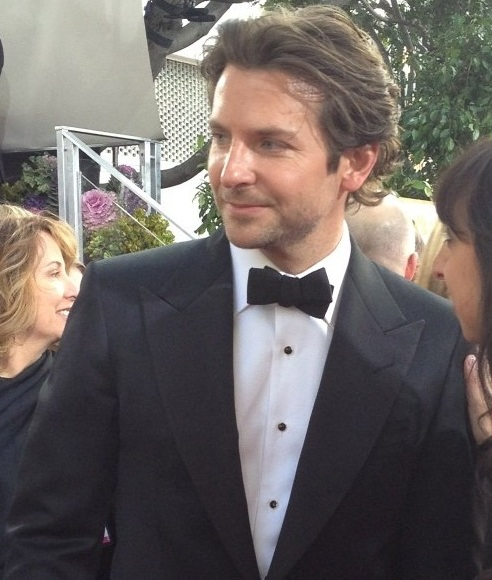 Actor Bradley Cooper at the 2013 Golden Globe Awards